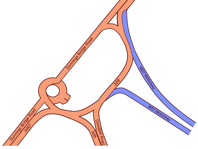 How Switch Island looked once the M57 motorway had been constructed and linked into the road network